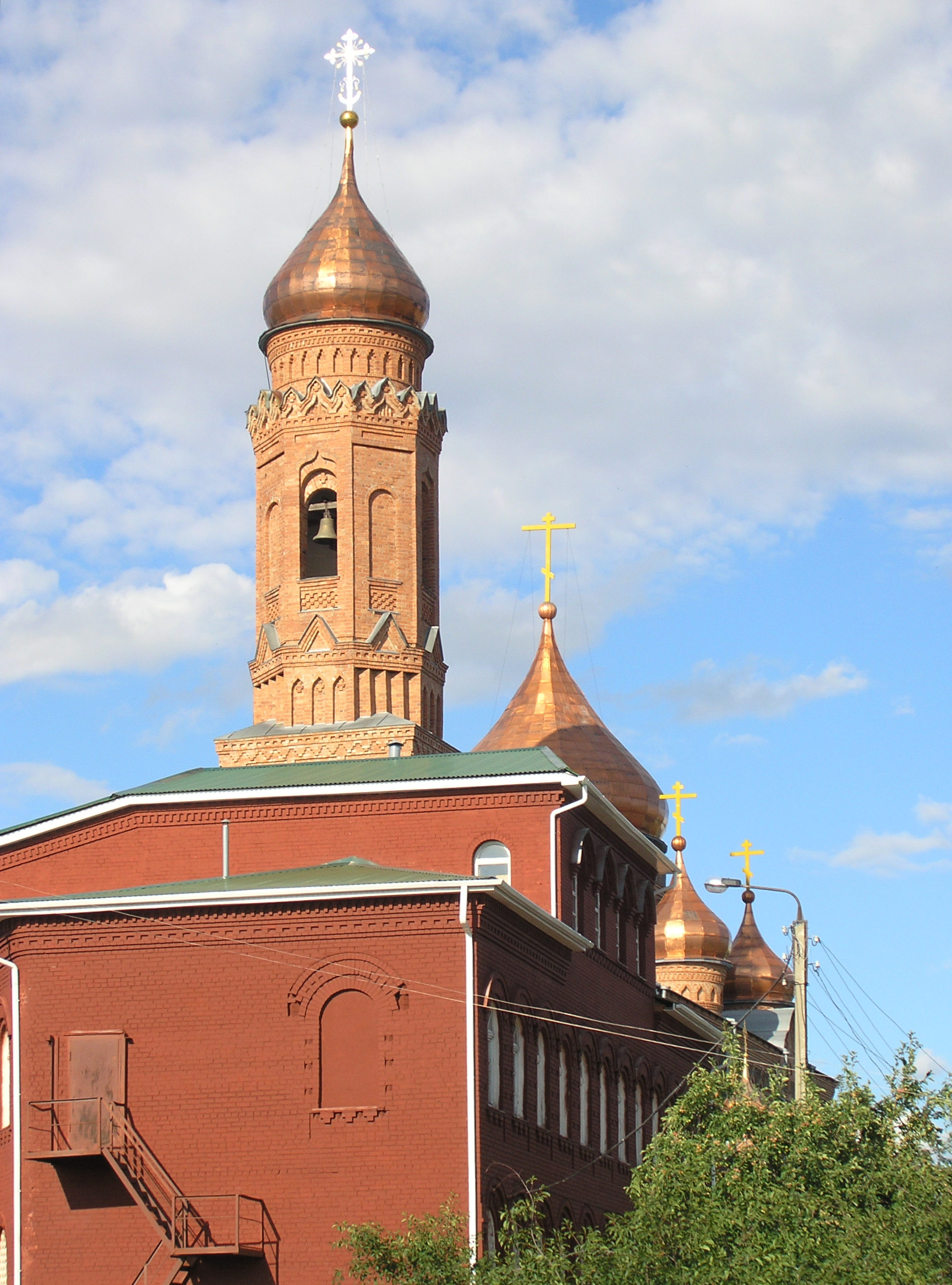 Kazansky sobor, bell tower, Togliatti, Russia